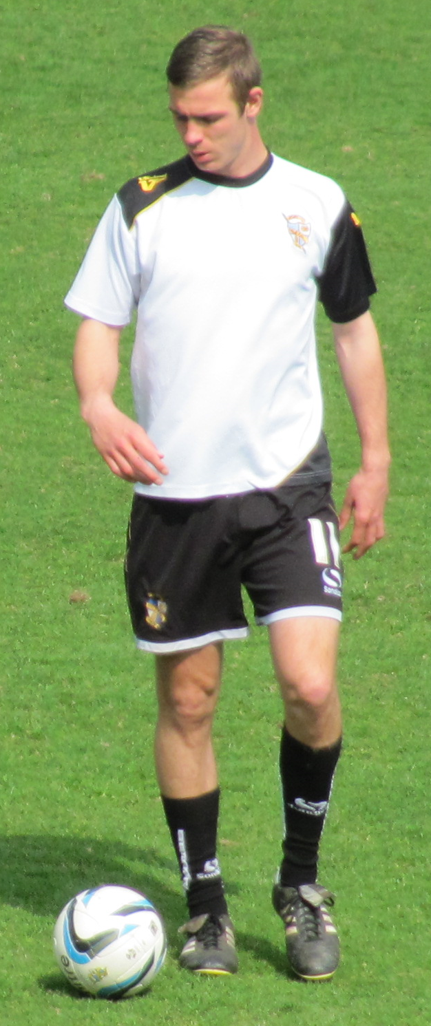 Pictured during the 2-2 draw between Port Vale and Northampton Town on 20 April 2013.